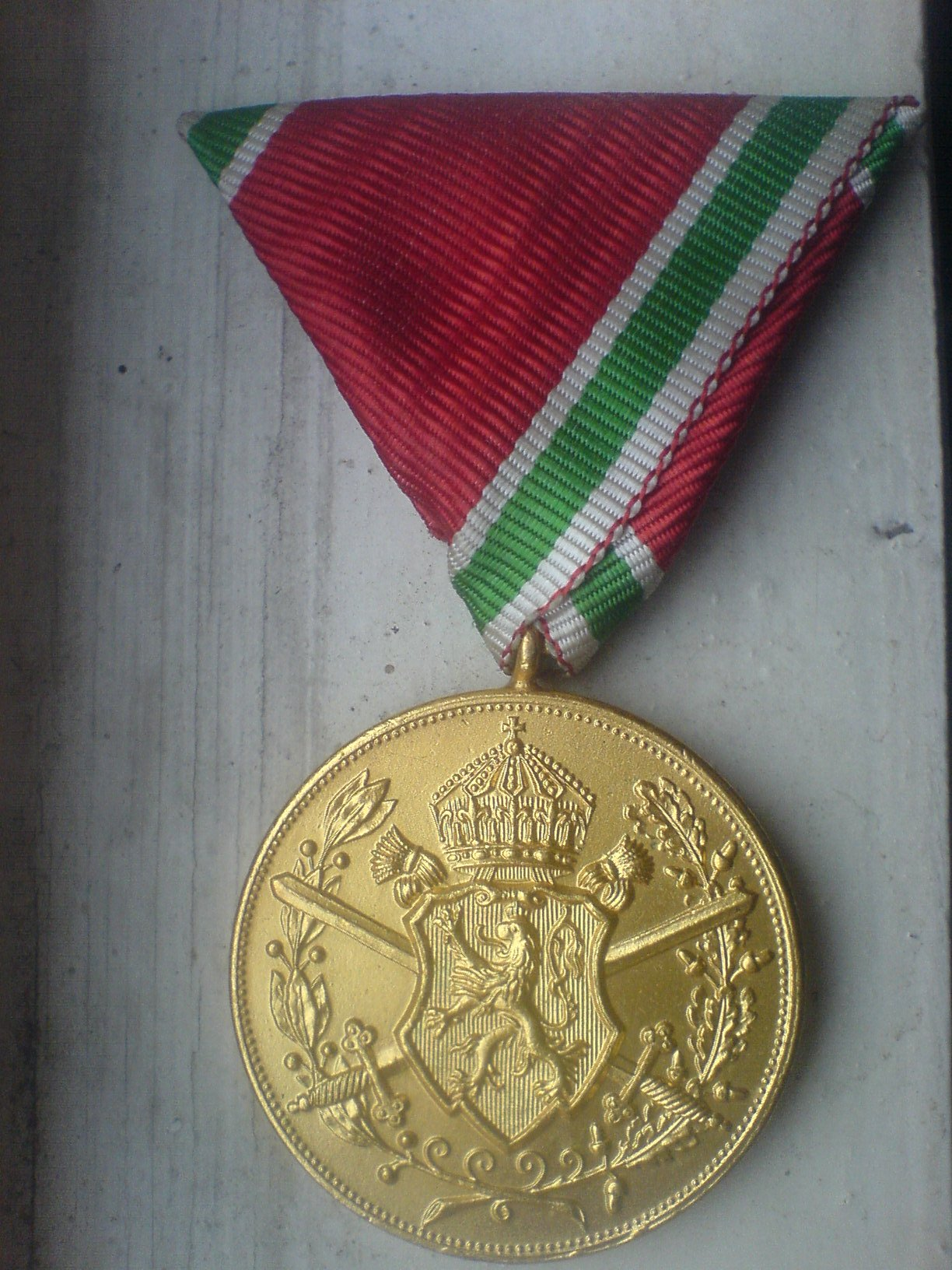 Commemorative Medal for World War I, Bulgaria 1933, ribbon for combatants, Avers side